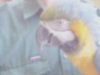 Image with simulated cataract